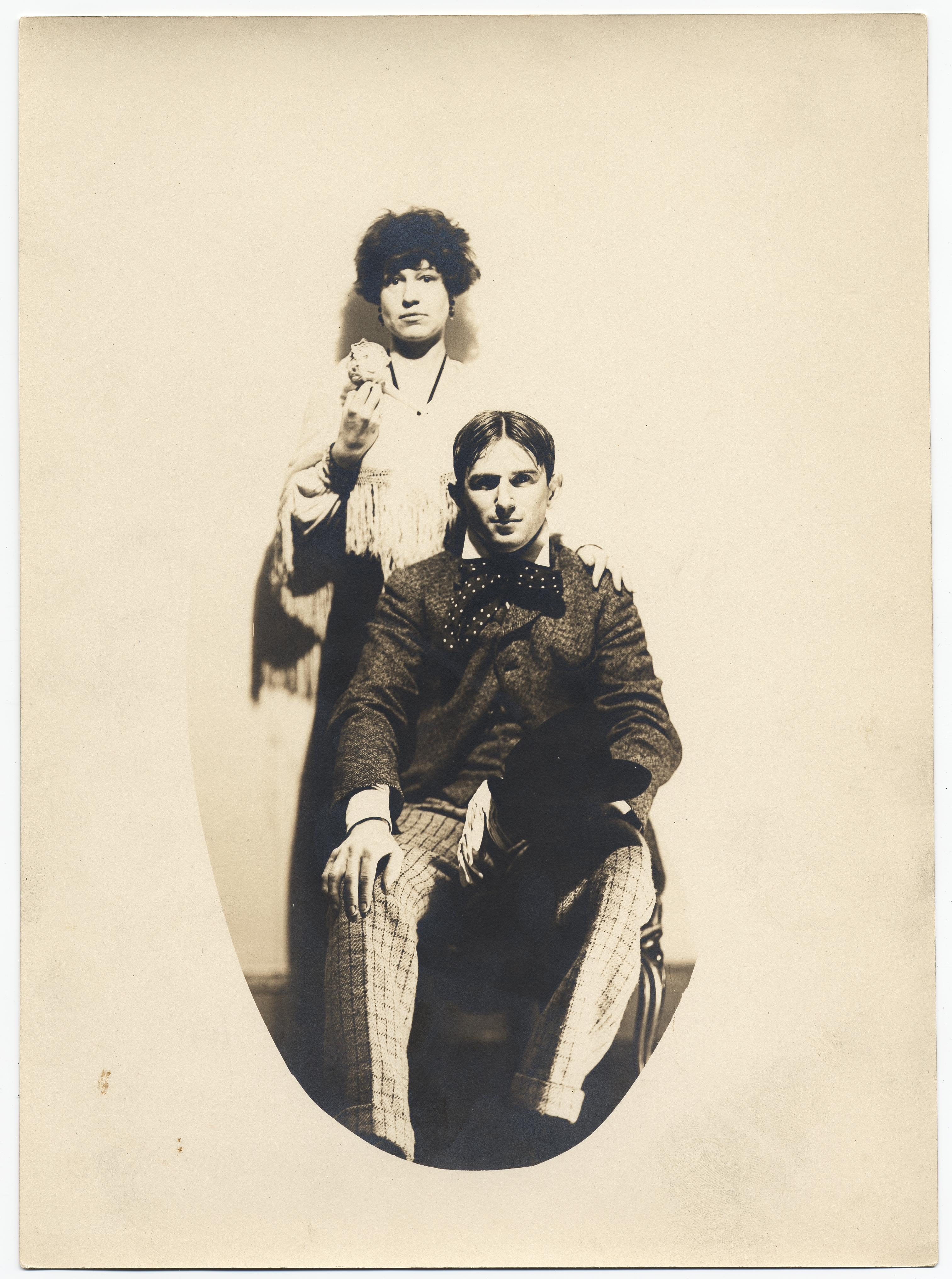 Description: Spencer, Betty Brook, Alexander, 1898-1980 Creator/Photographer: Yasuo Kuniyoshi Medium: Black and white photographic print Dimensions: 26 cm x 19 cm Date: c. 1921 Persistent URL: Repository: Archives of American Art Collection: Katherine Schmidt papers, circa 1921-1971 Accession number: AAA_schmkath_8694